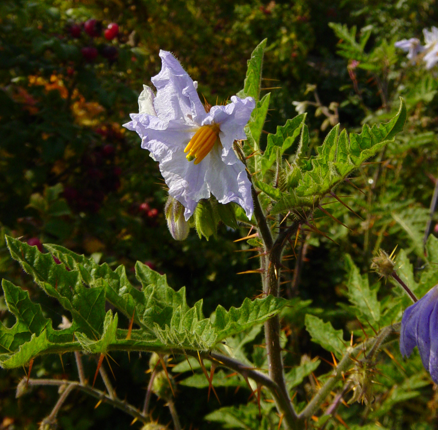 image of Solanum pyracanthos, Solanaceae